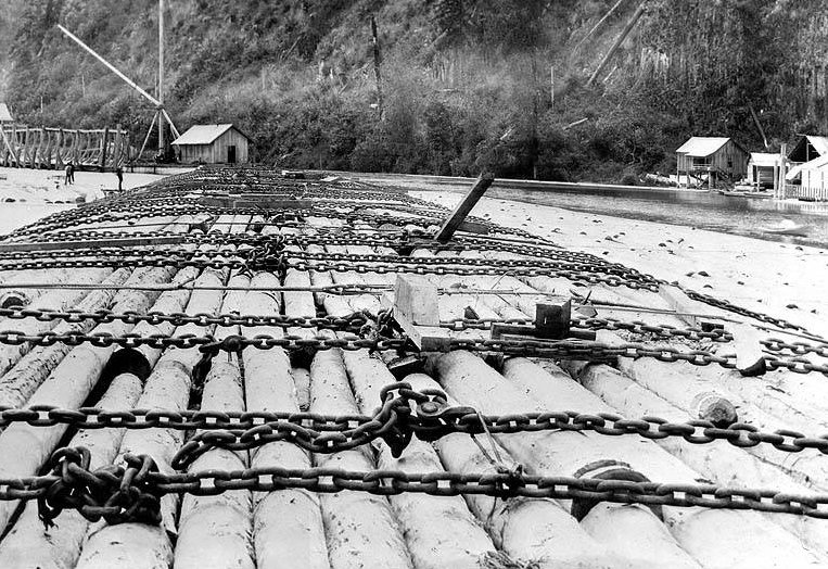 Benson log raft complete with chains